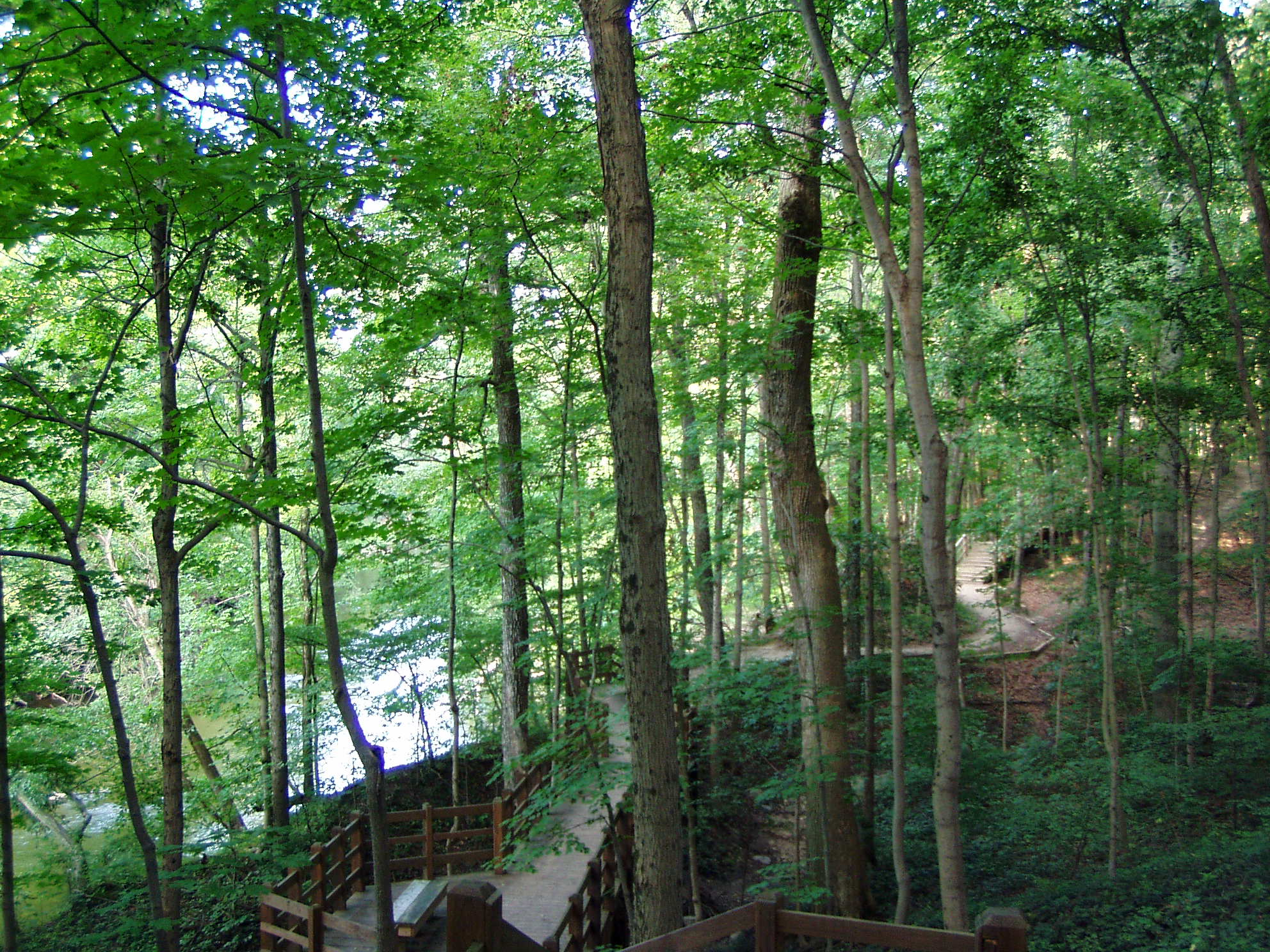 Board walk on pedestrian trails, along Fall Creek in Fort Harrison State Park, Indianapolis, Indiana